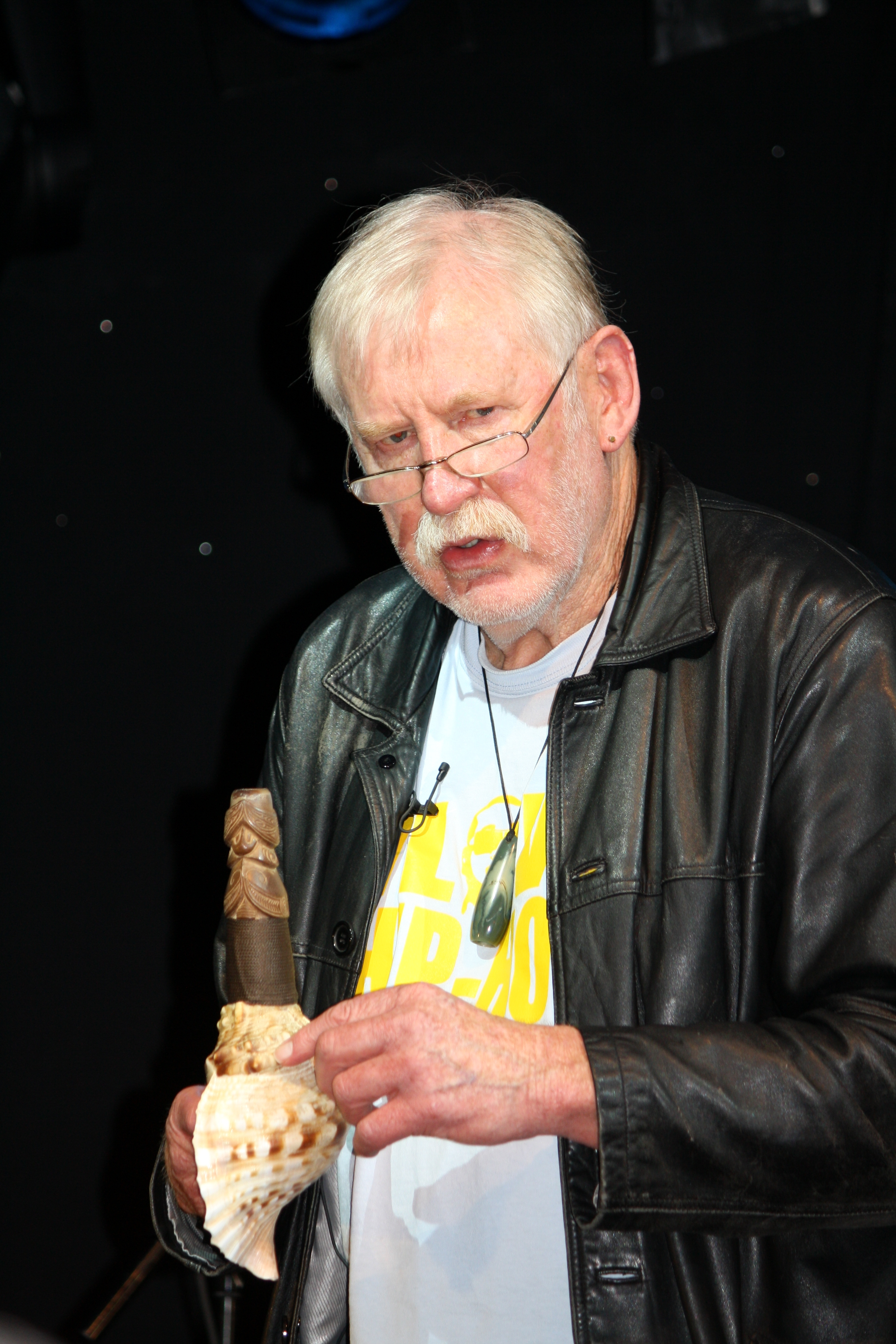 Richard Nunns in 2011, holding a pūtātara (conch shell trumpet), a traditional Māori musical instrument.